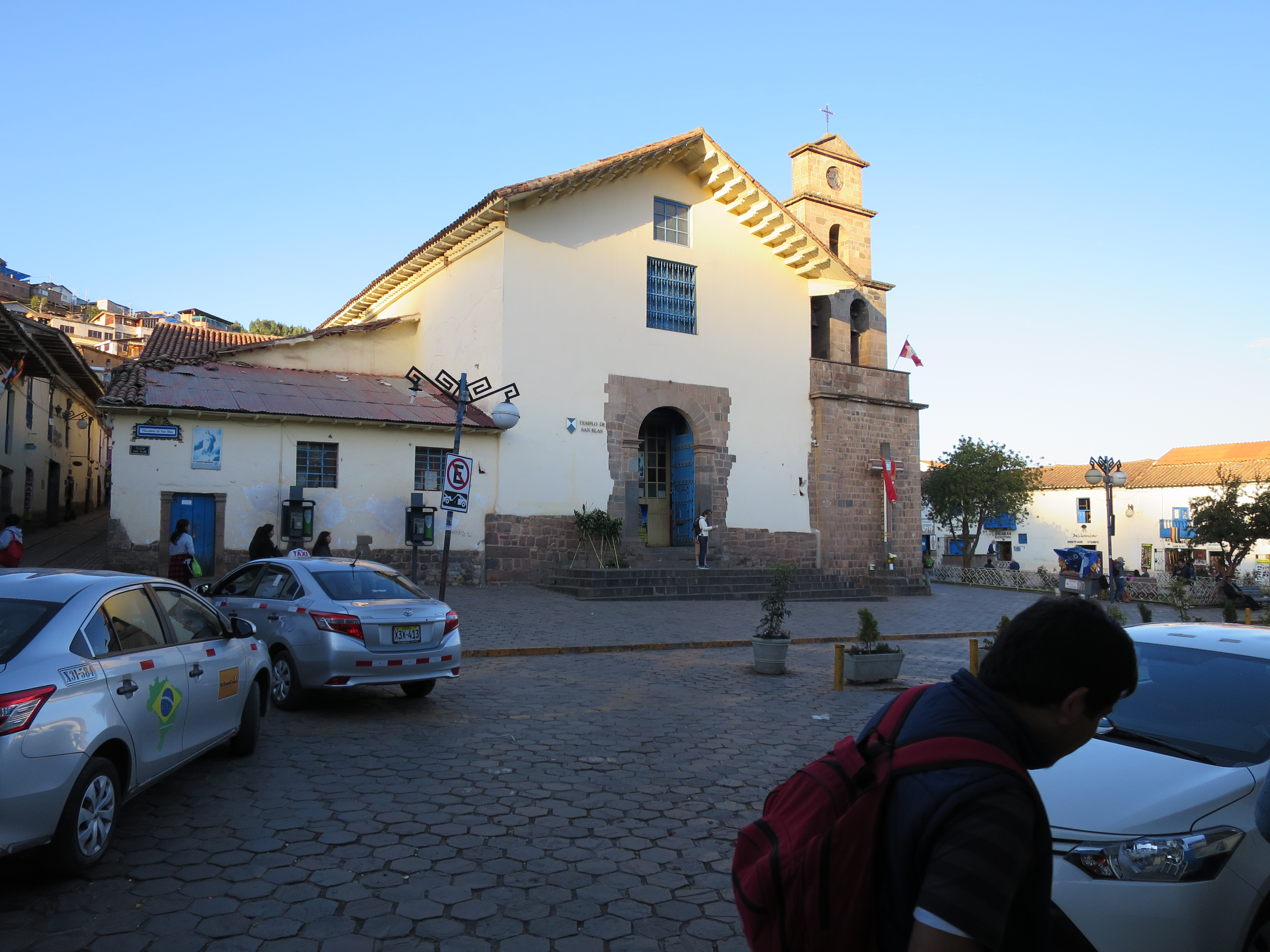 Iglesia de San Blas del Cuzco in Plazoleta de San Blas, Cusco